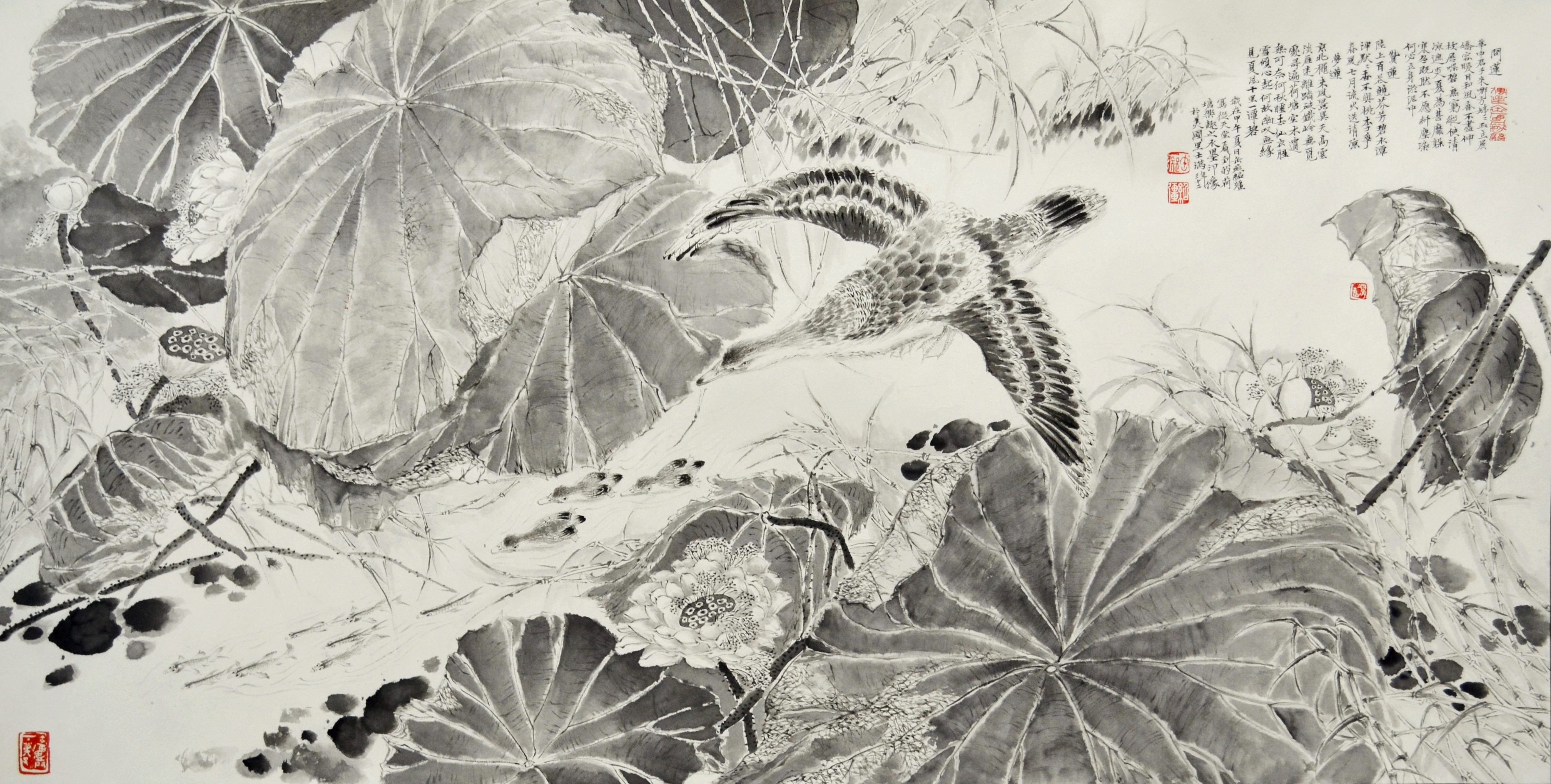 by Shaoqiang Chen, Ink and Watercolor on Rice Paper, 68 x 136 cm